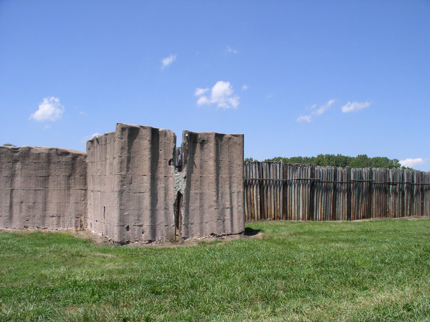 A photo of a section or reconstructed palisade at the Cahokia site, a large Mississippian culture city in western Illinois.